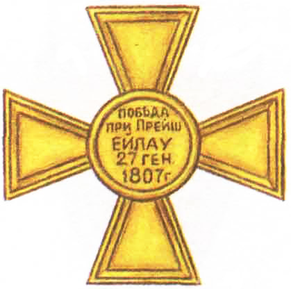 Badge of Pavlovsky Guard Regiment